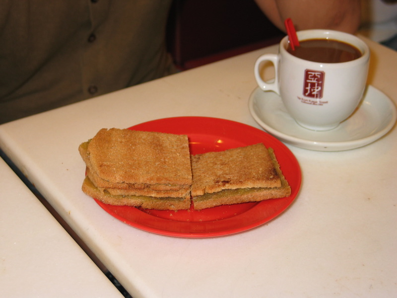 A cup of coffee and kaya toast from Ya Kun Kaya Toast in Singapore.